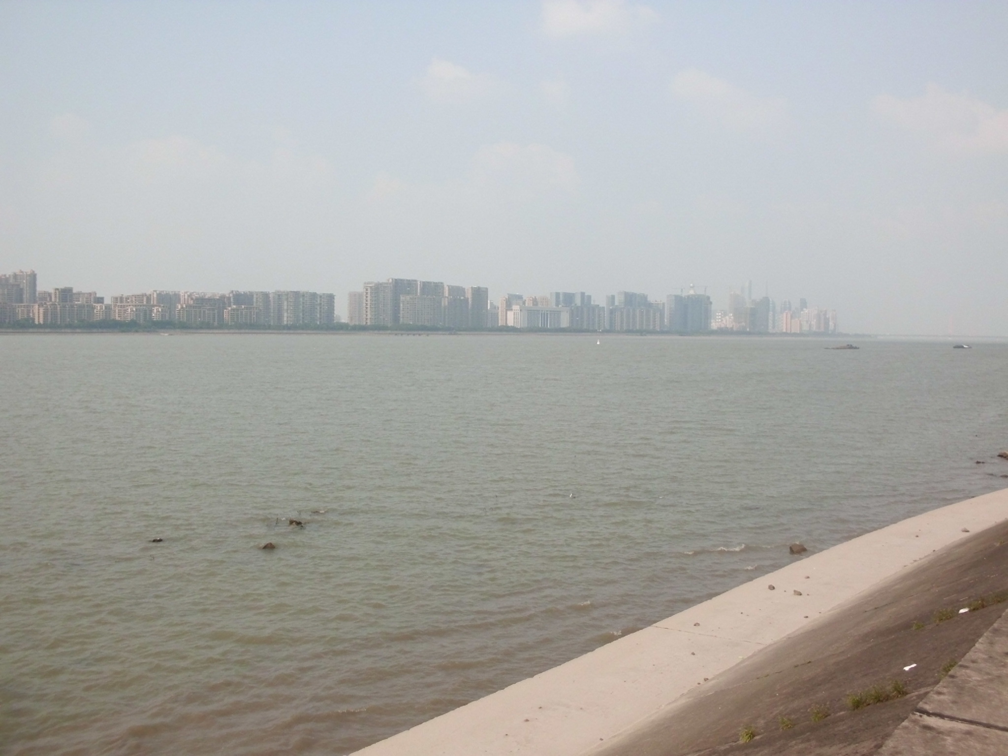 Binjiang District